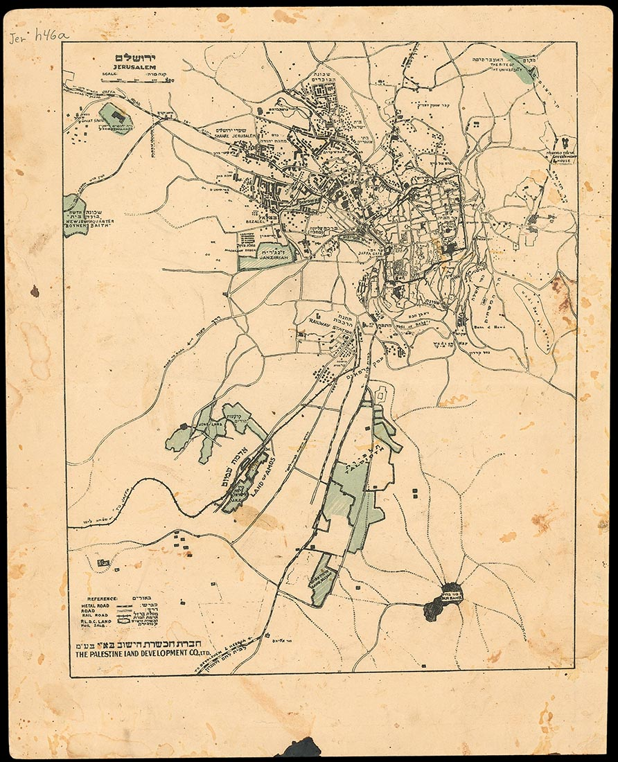 Plan of Jerusalem published by The Palestine Land Development Company, ca. 1922.